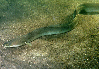 European eel (Anguilla anguilla) from nl wikipedia